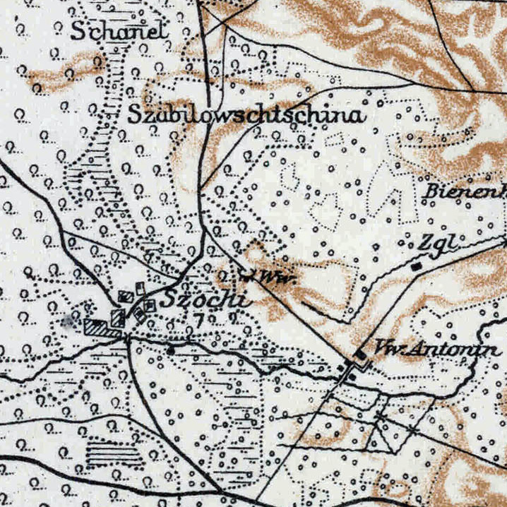 Sokhy on the map "Karte des Westlichen Russlands", T 35, 1917. According to Digital Repository of Scientific Institutes and Kujawsko-Pomorska Digital Library the map is in the public domain.